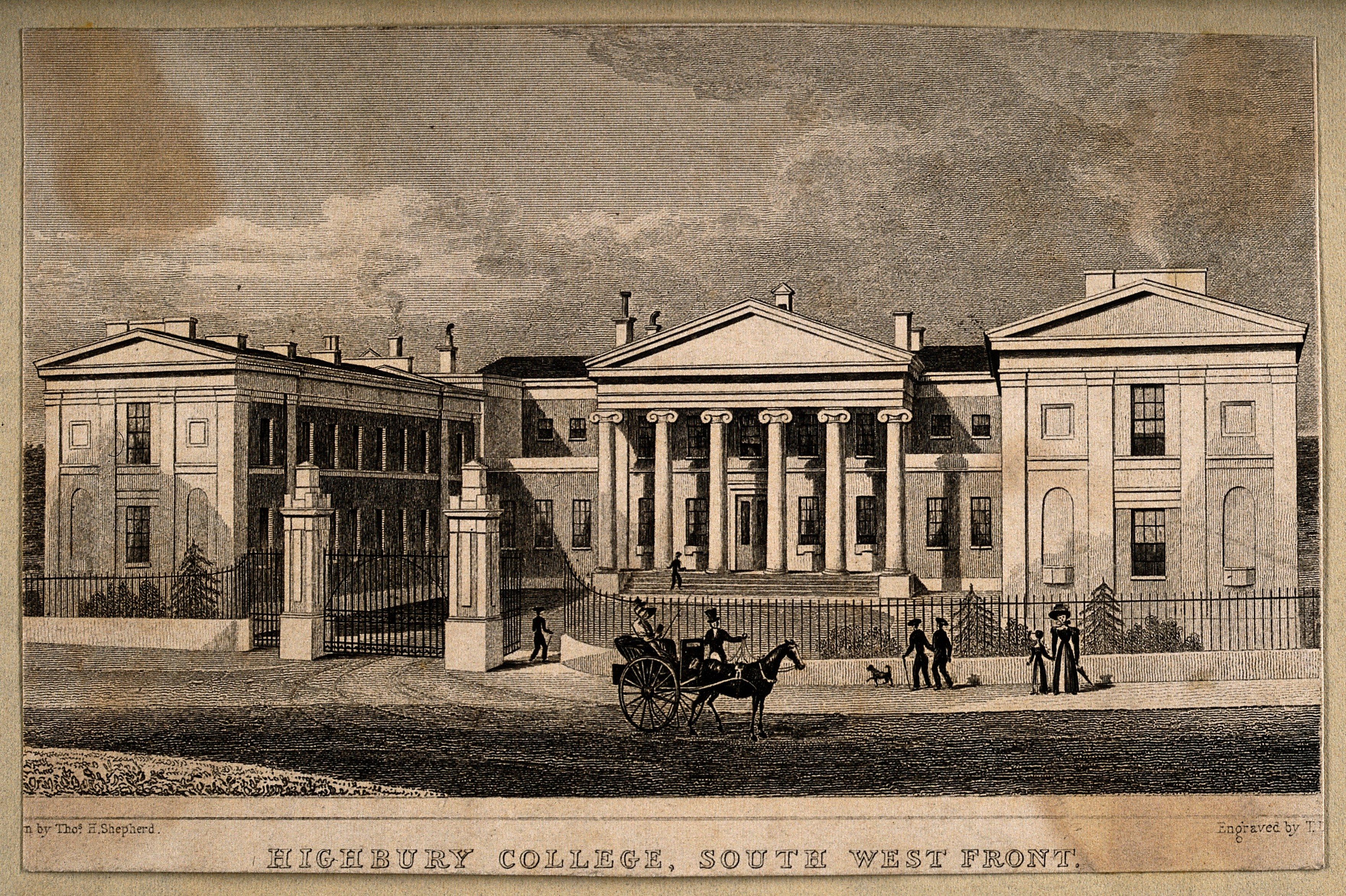 Highbury College, London. Etching by T. Dale, 1827, after T.H. Shepherd. Iconographic Collections Keywords: Highbury College (London, England); Thomas Dale; Thomas Hosmer Shepherd